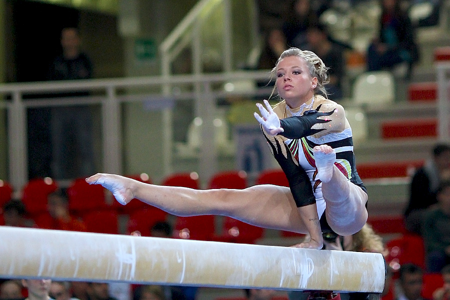 Dorina Böczögő performing a one arm press hold during her balance beam mount in April 2012.